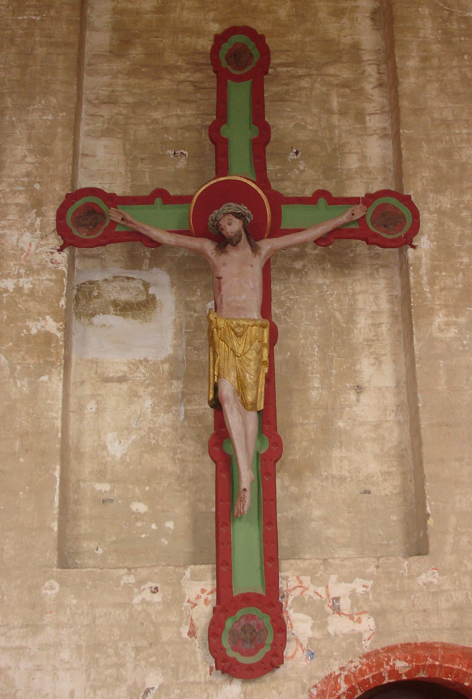 Church in Hohenkirchen, district Nordwestmecklenburg, Mecklenburg-Vorpommern, Germany